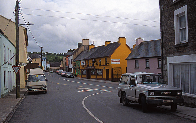 Kilgarvan (2)